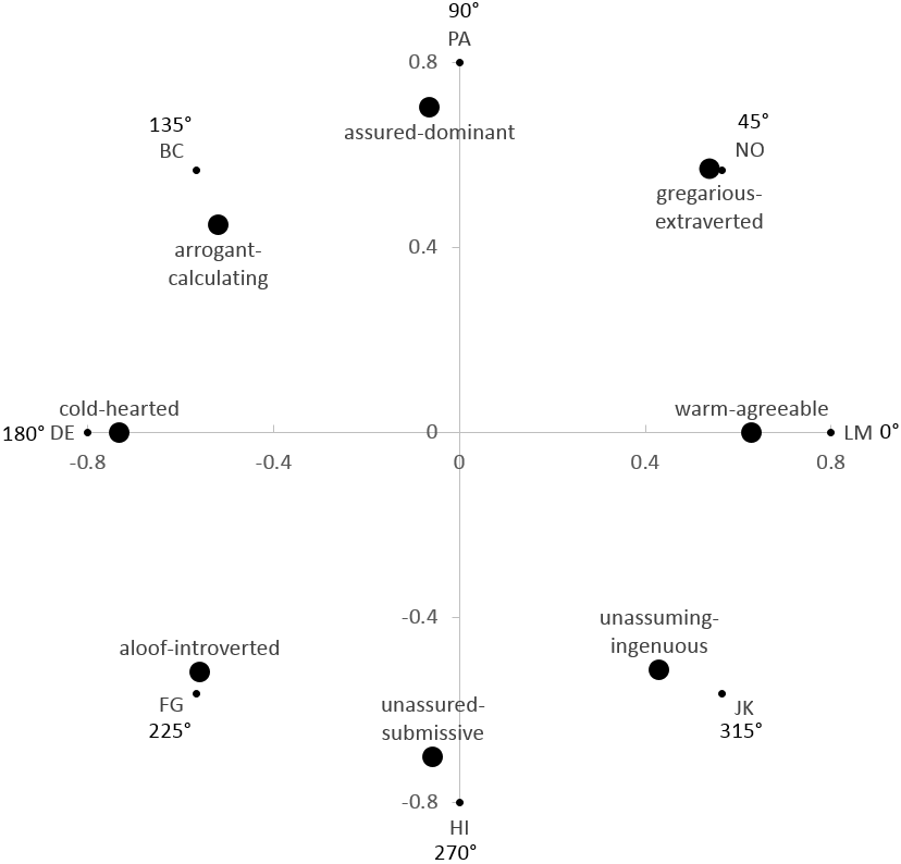 Circumplex of IAS-R from: Jerry S. Wiggins; Paul Trapnell; Norman Phillips (1988): 'Psychometric and Geometric Characteristics of the Revised Interpersonal Adjective Scales (IAS-R)' in Multivariate Behavioral Research, Volume 23, p. 517-530